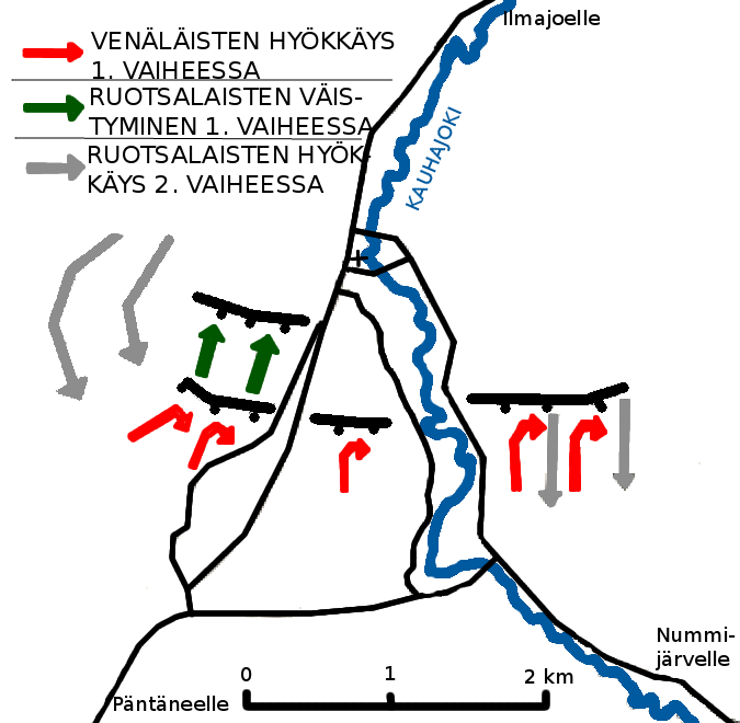 Map of the Battle of Kauhajoki (10 August 1808), in Finnish.